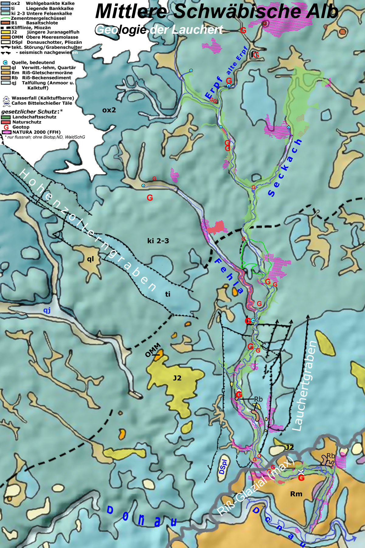 Geological map of the Middle Swabian Alb (Jurassic rocks in bluish colours [ox = Oxfordian, ki = Kimmeridgian, Ti = Tithonian], Tertiary rocks in yellowish-reddish-brownish colours). The map focuses on one of the very few remaining geo-historically important Upper Danube tributaries: River Lauchert of miocene origin with its major tributary Fehla. Even after 5 million years of danube-oriented karst, river Lauchert did not totally go underground. Due to German and EU regulations its nature and geology are protected.